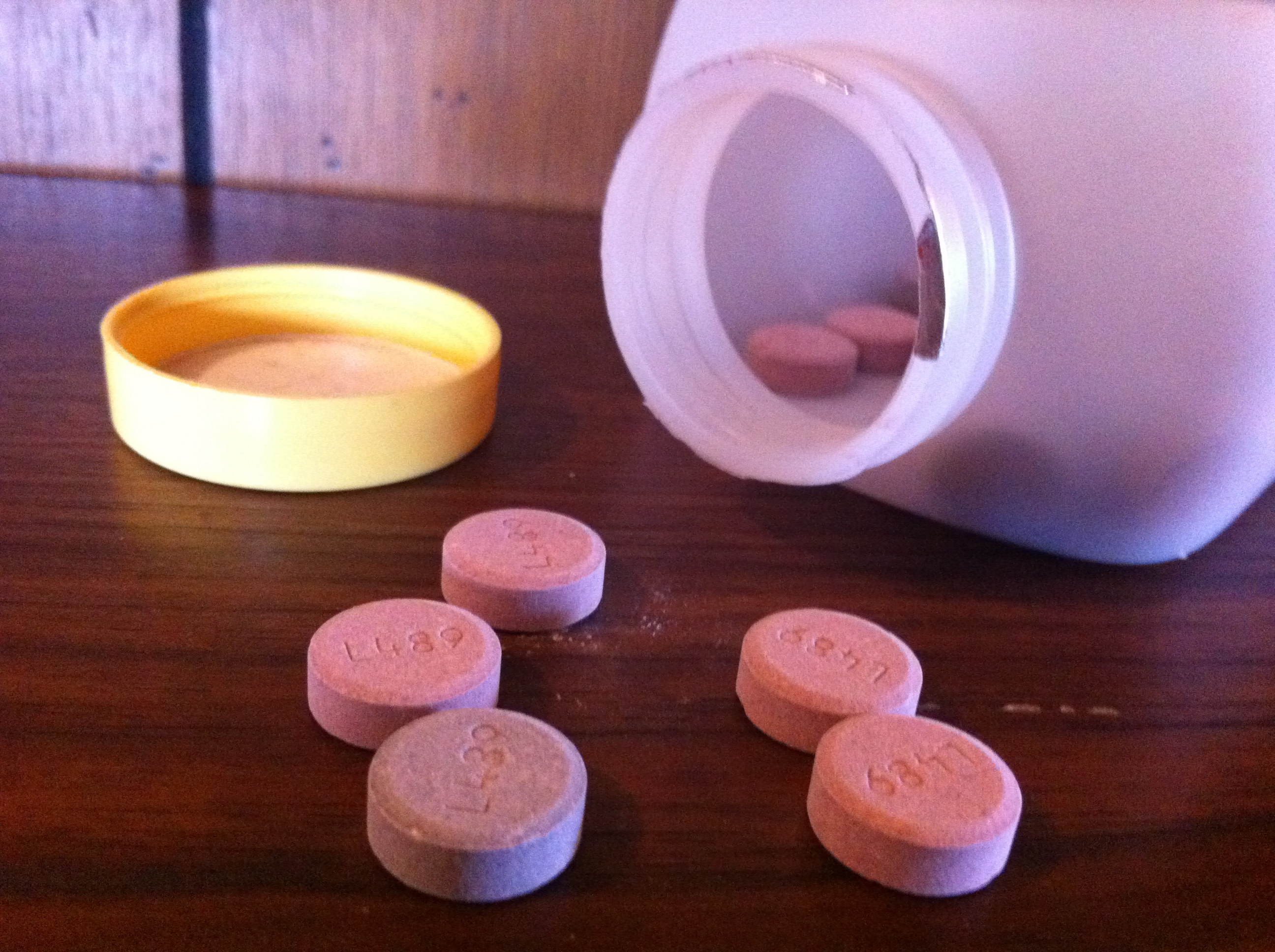 Equate Calcium Antacids with Bottle